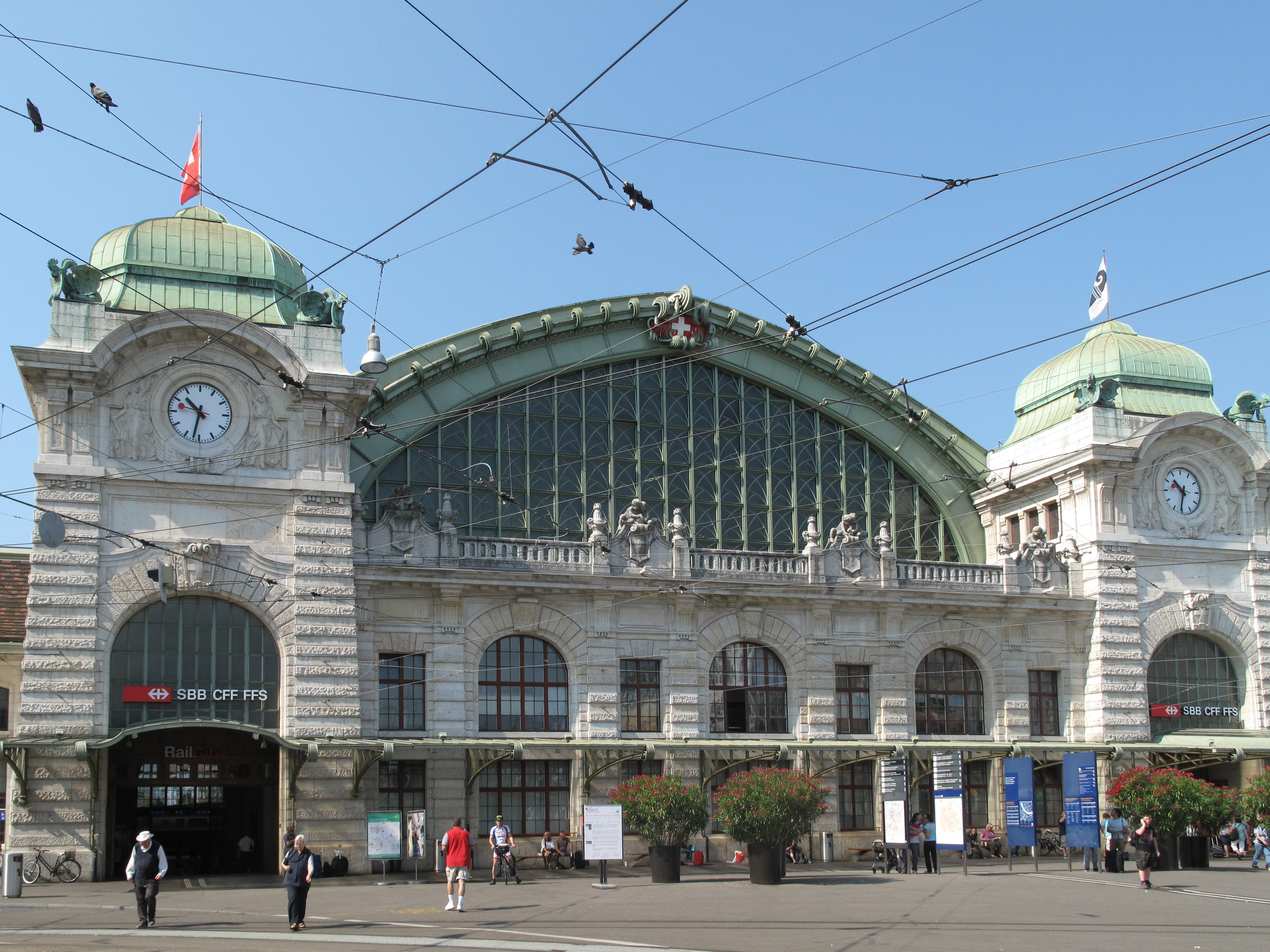 Basel, station Basel SBB